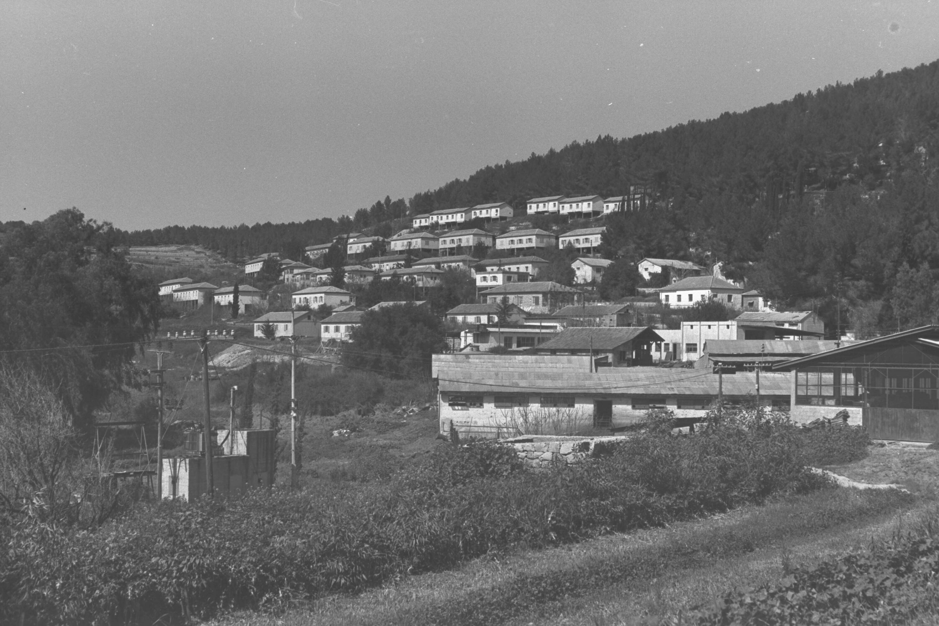 original description: KIBBUTZ KIRYAT ANAVIM. GENERAL VIEW OF KIBBUTZ KIRYAT ANAVIM IN THE JUDEAN HILLS NEAR JERUSALEM.